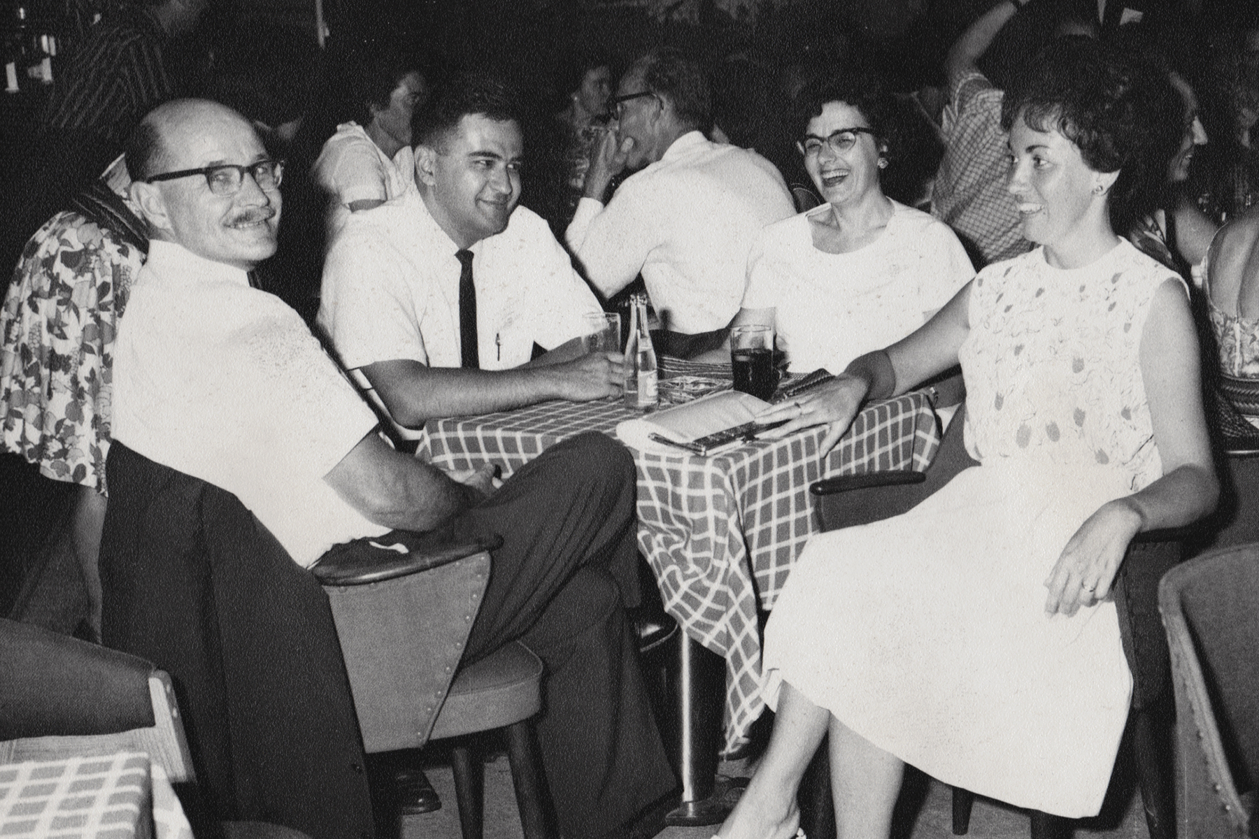 Luc et Pierrette, 1959